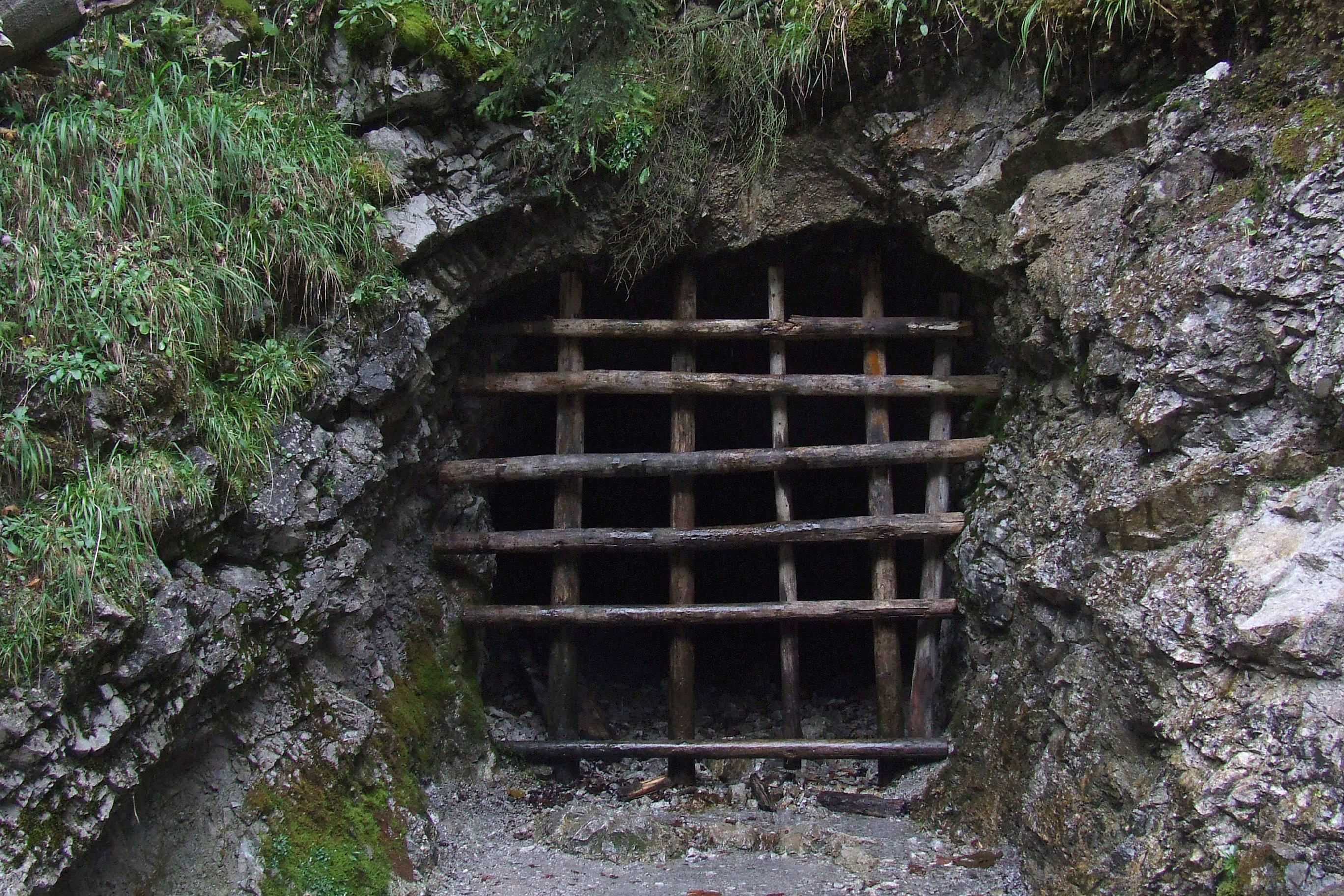 Uranium Sough, Dolina Białego (Zakopane)